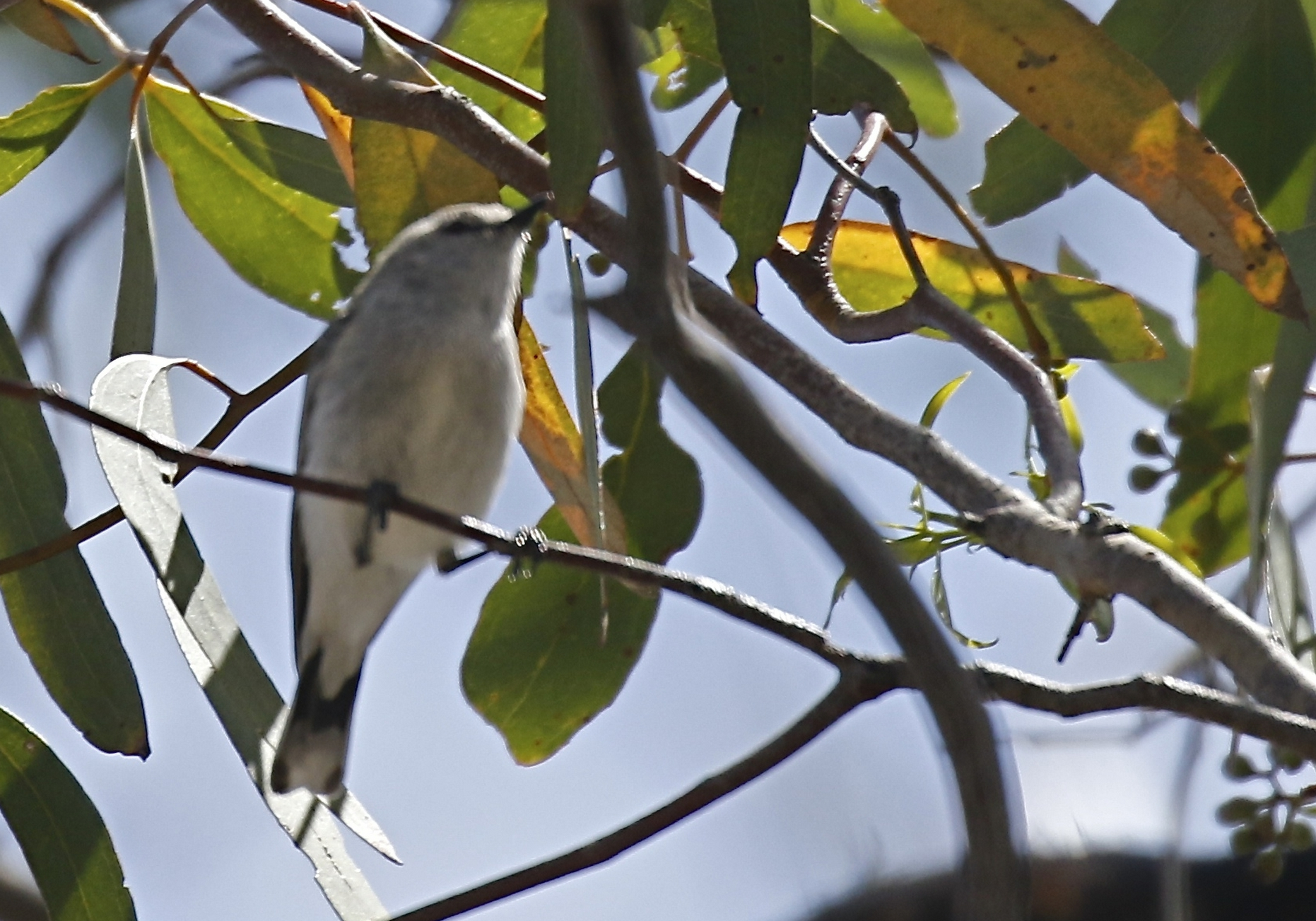 Deniliquin district - Australia